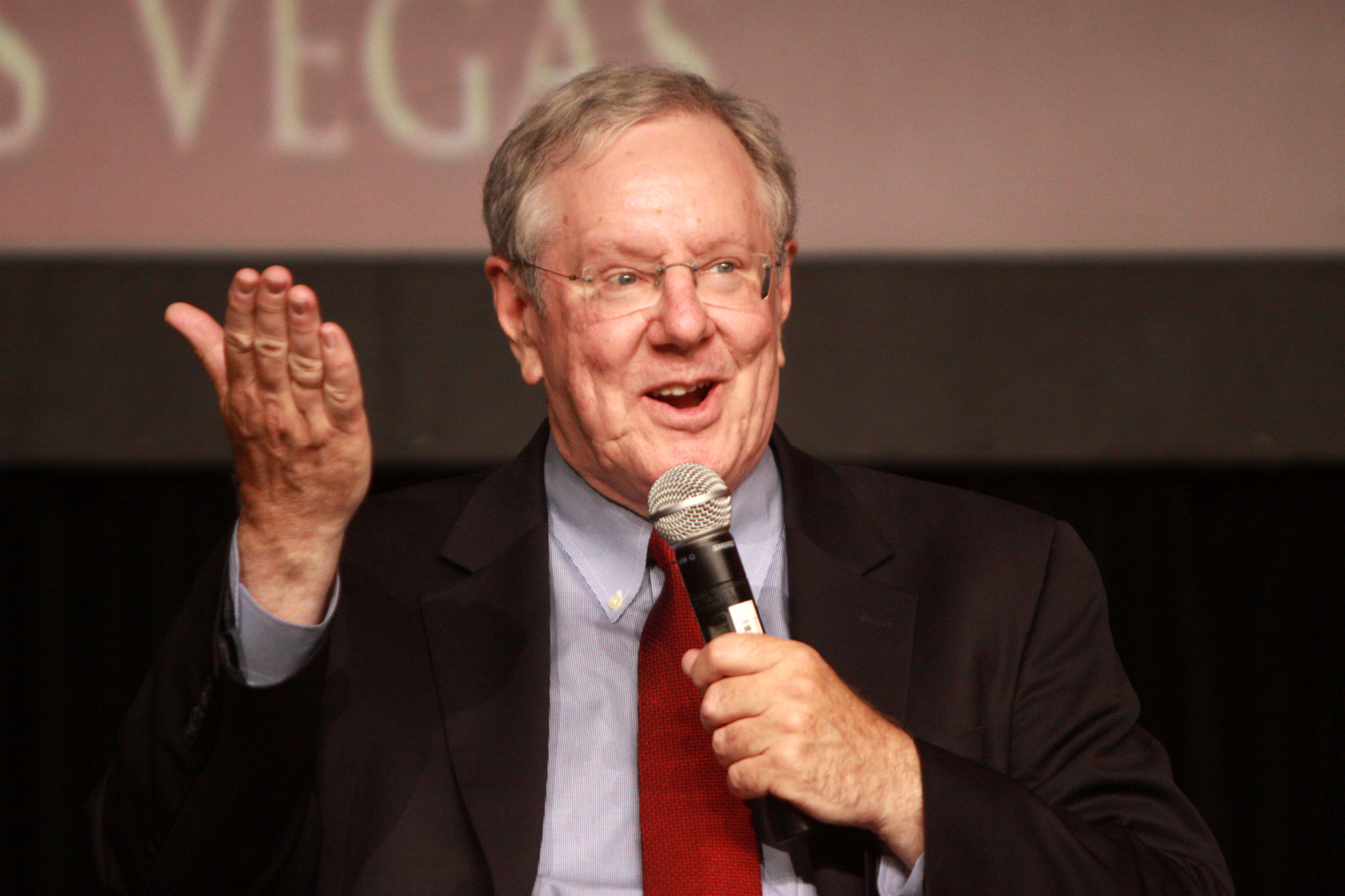 Steve Forbes speaking at the 2013 FreedomFest in Las Vegas, Nevada, USA.